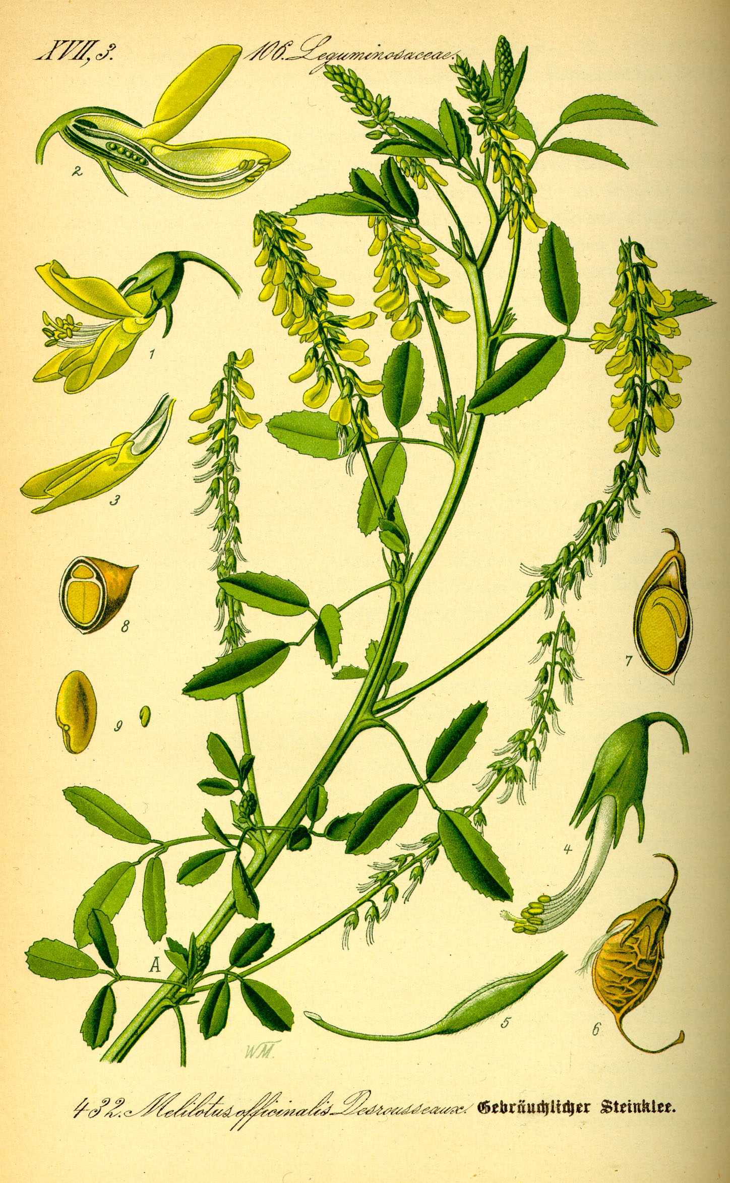 Melilotus officinalis